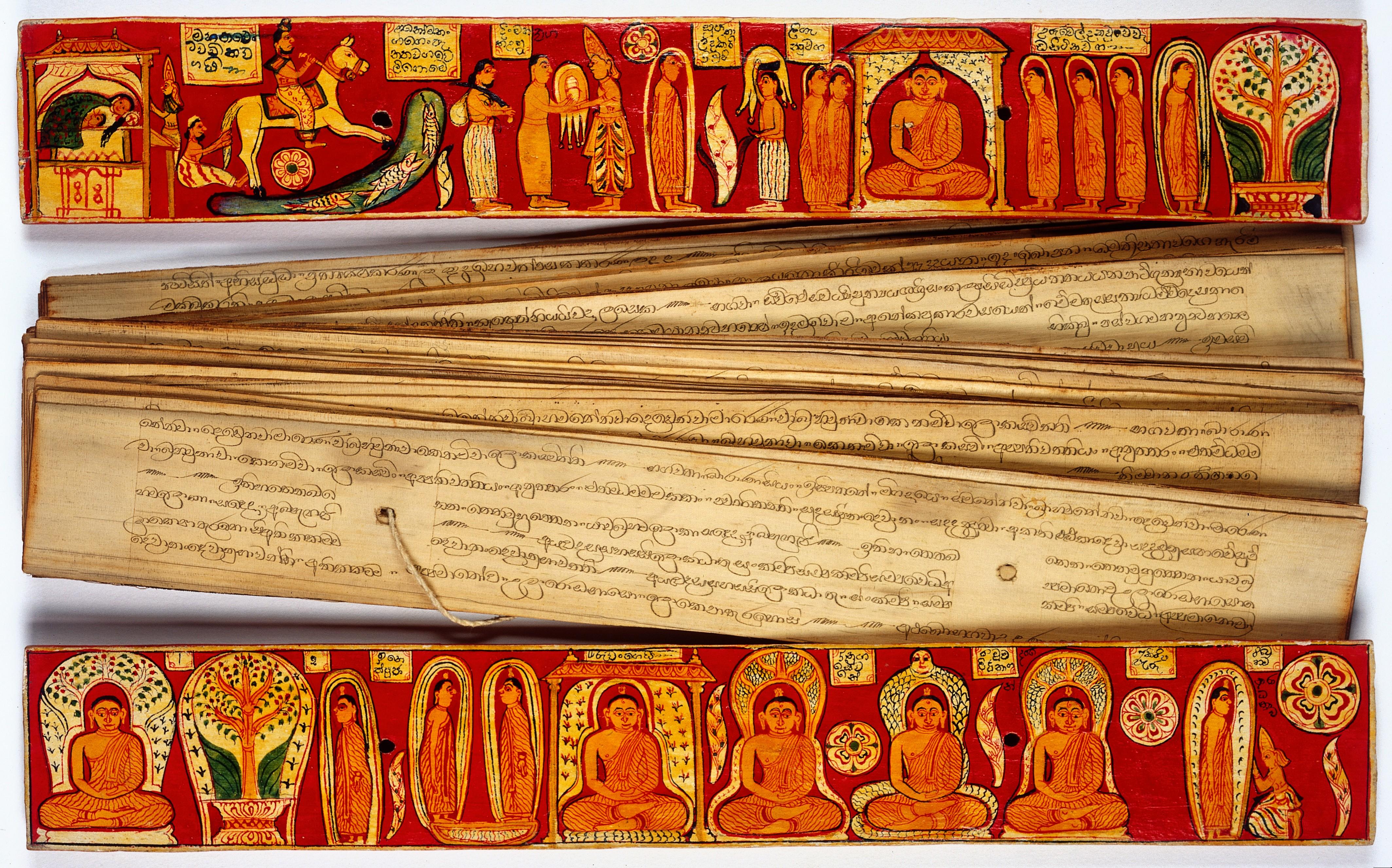 Illustrated Sinhalese covers (inside), and palm leaf pages, showing the events between the Bodhisatta's renunciation and the request by Brahna Sahampati that he teach the Docrine after he becomes a Buddha. Asian Collection Keywords: Art; singhalese ms 143; God; Buddhist; Buddhism; Religion; Ceylon; Buddha; Sri Lanka